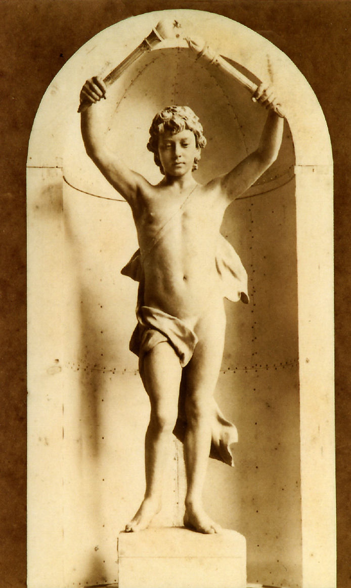 Hymen from the Brautpforte (Rathaus Hamburg) by the artist Jacob Ungerer